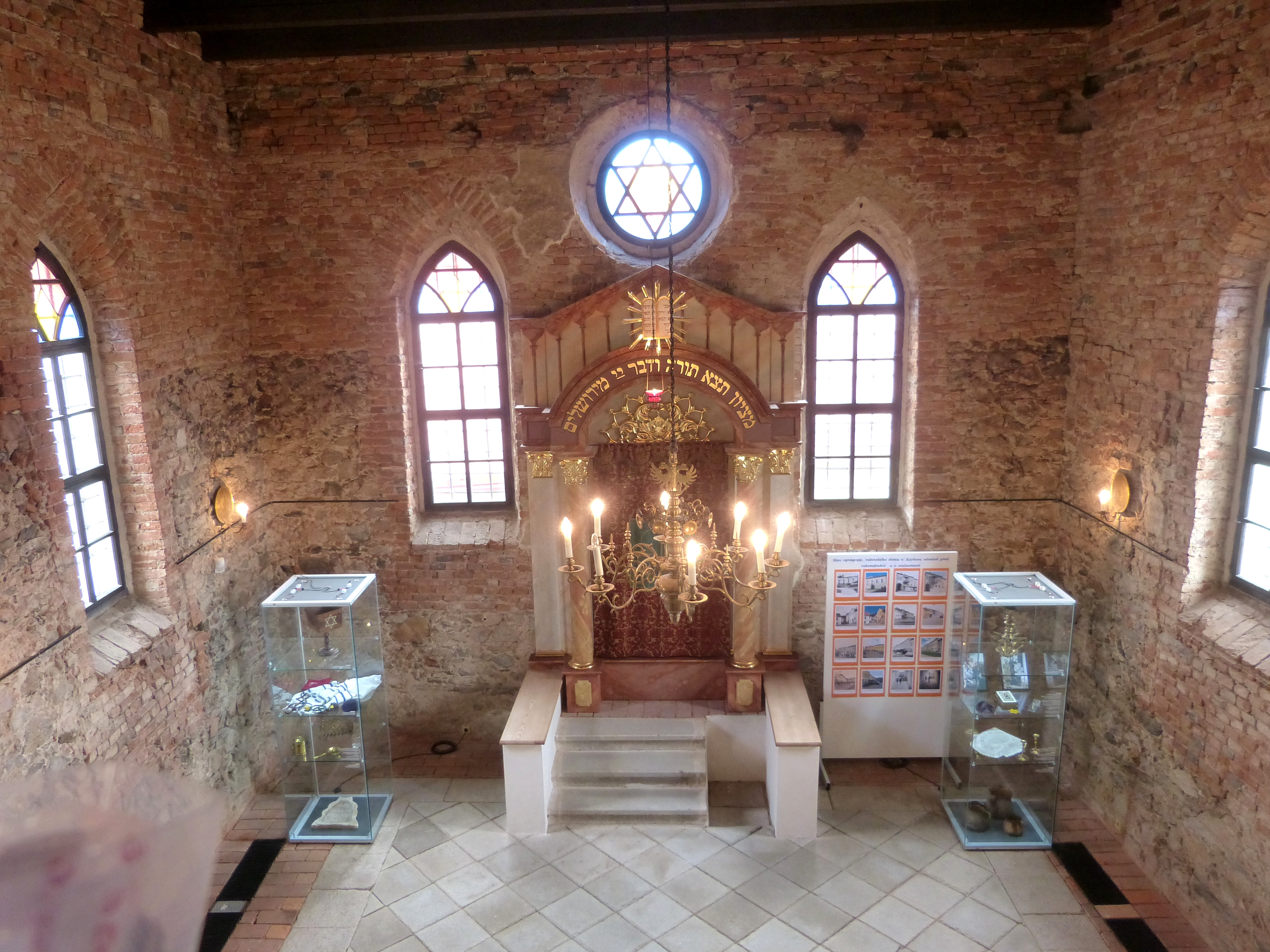 Polnà ( Czech Republic ). Jewish Quarter: Synagogue ( 1684 ) - Interior